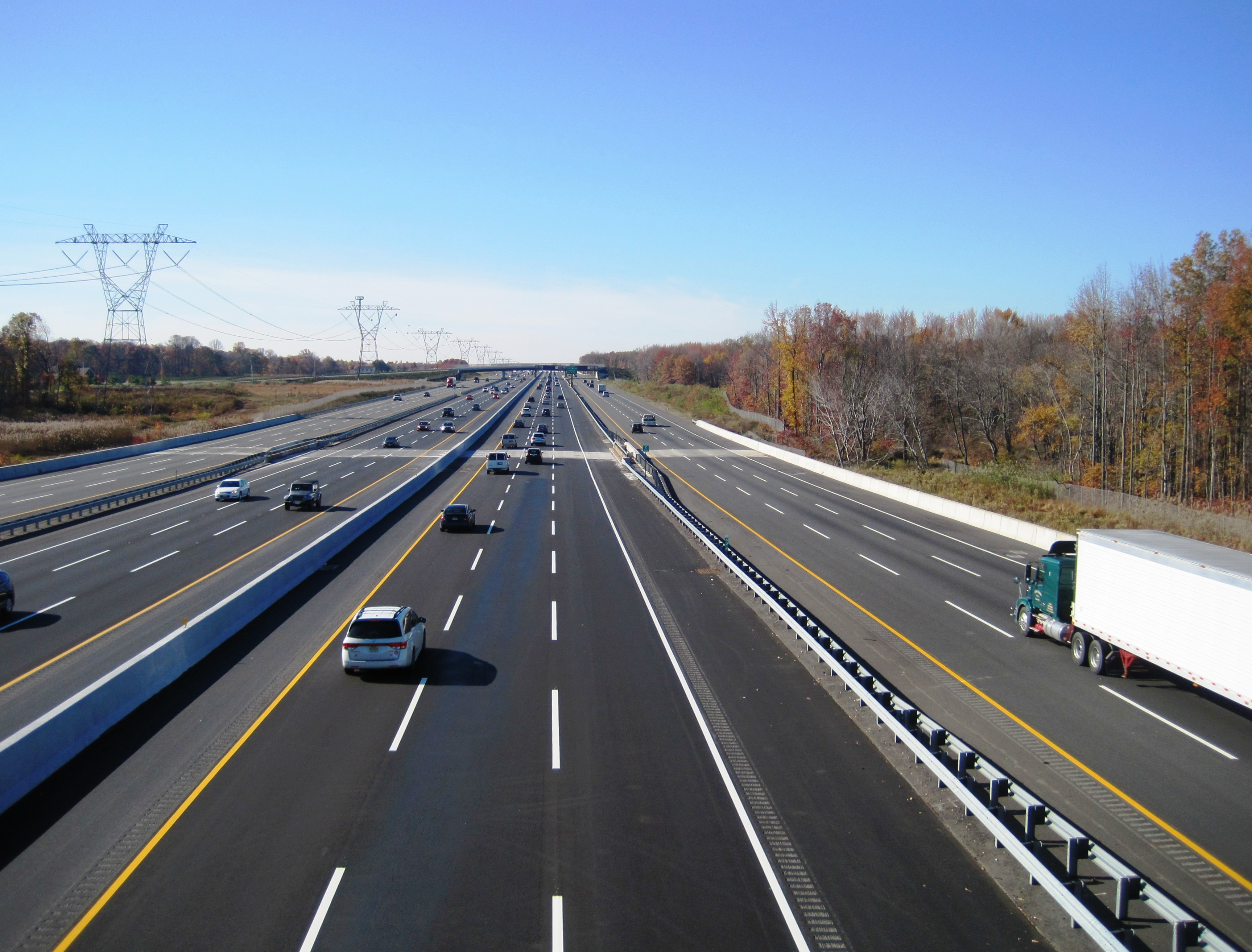 Photo of the completed widening of the New Jersey Turnpike from Exits 6 to 9. This shot is taken from the Windsor Road bridge looking south in Robbinsville Township, New Jersey. The roadway completely opened on November 3, 2014.